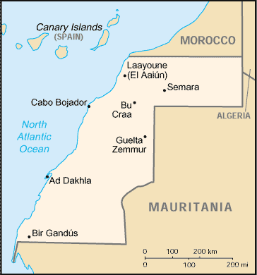 Map of Western Sahara, showing major towns.